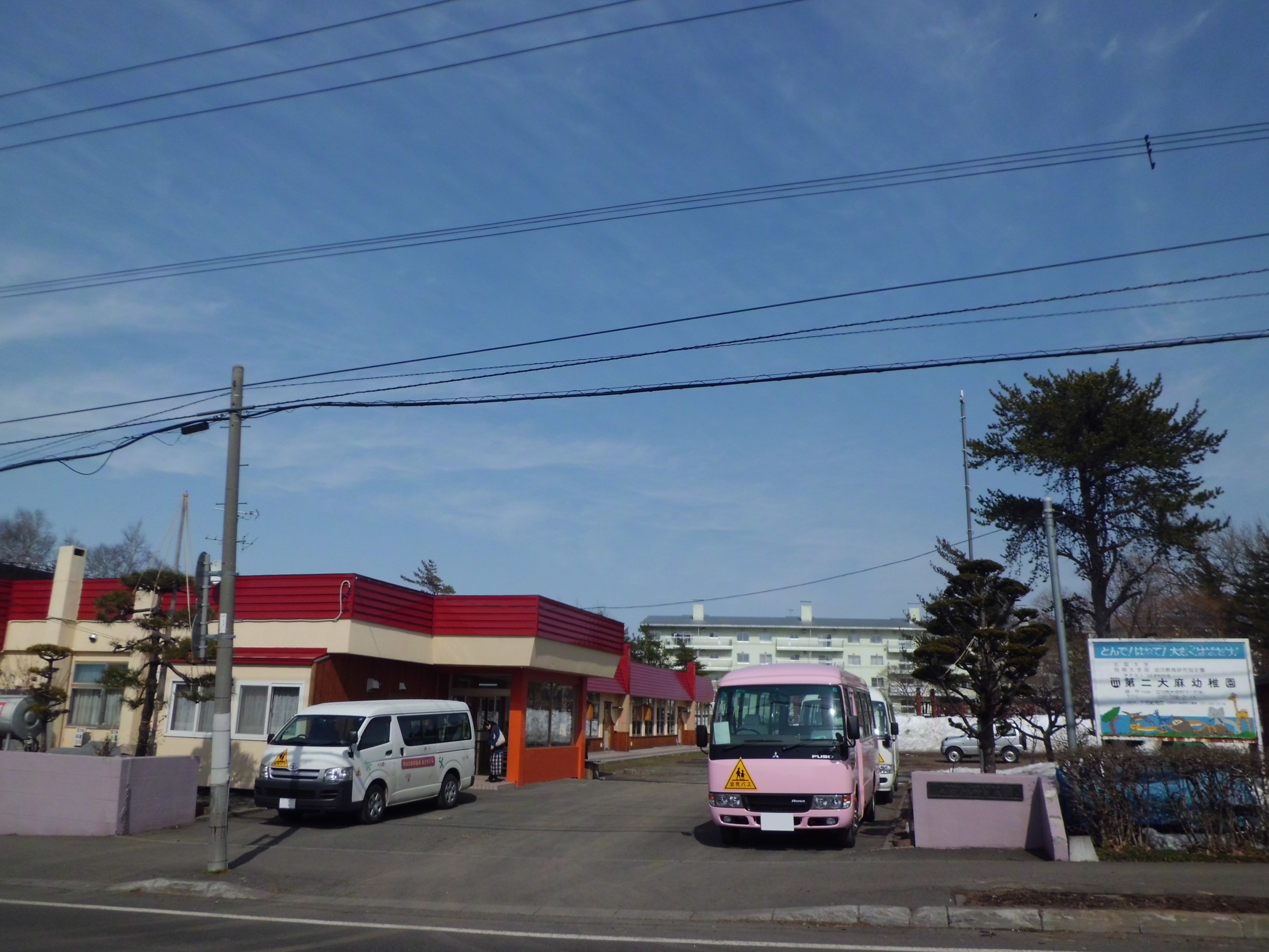 Dai-ni Oasa Kindergarten in Ebetsu, Hokkaido.